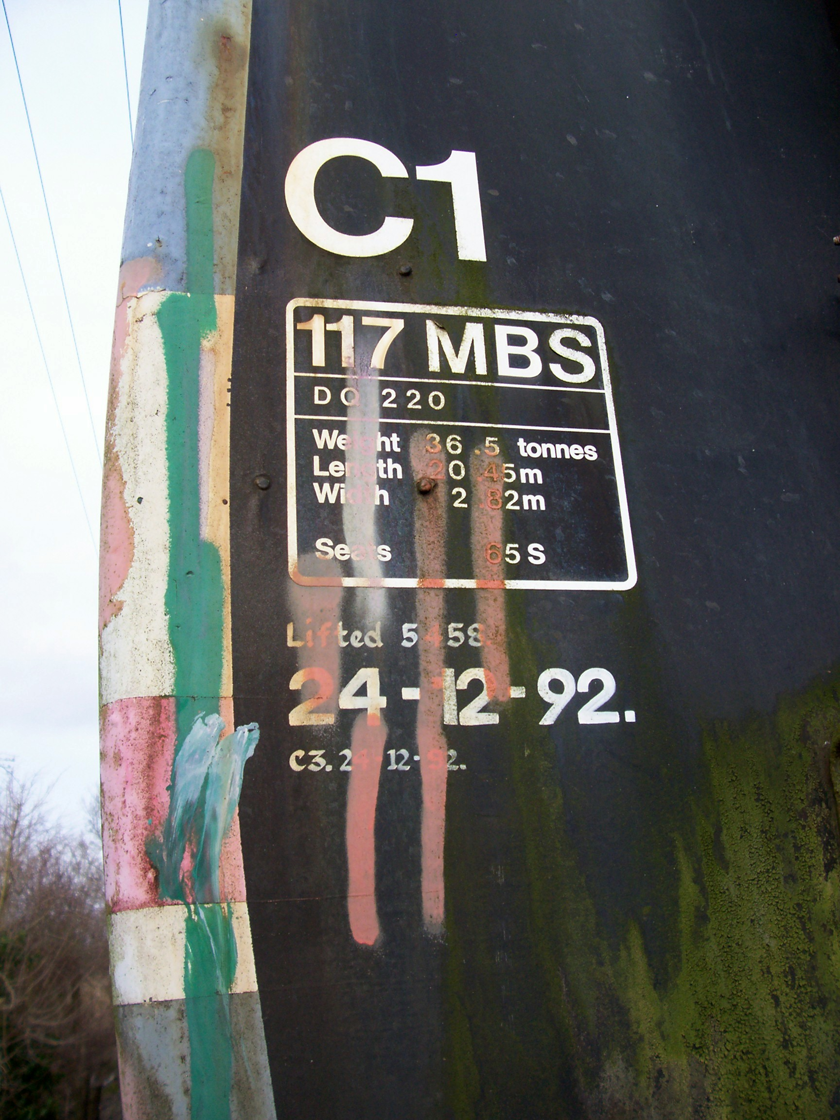 A data panel of a class 117 MBS (Motor Brake standard)